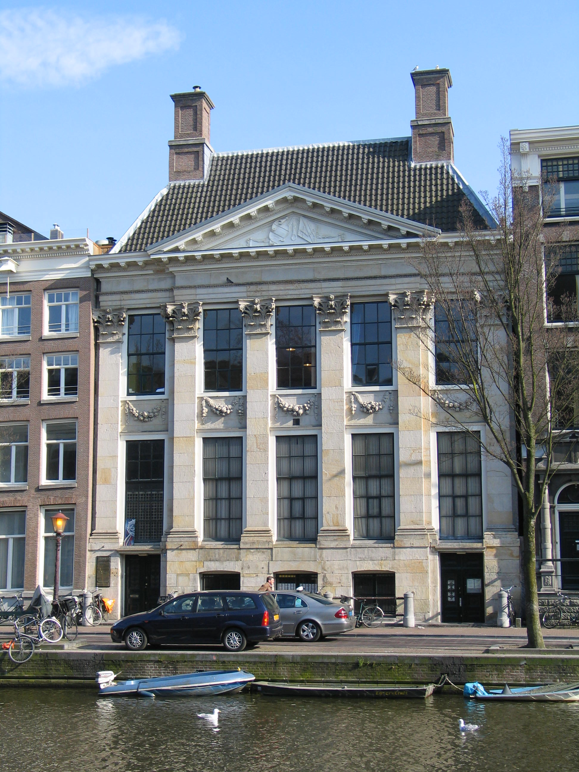 Canal house in Amsterdam, designed by Philip Vingboons, on Kloveniersburgwal 95